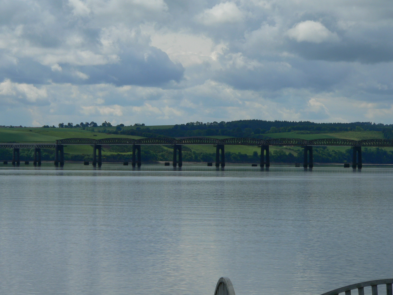 The Tay Bridge photographed from the waterfront in Dundee east of Discovery point and the Tay Road Bridge